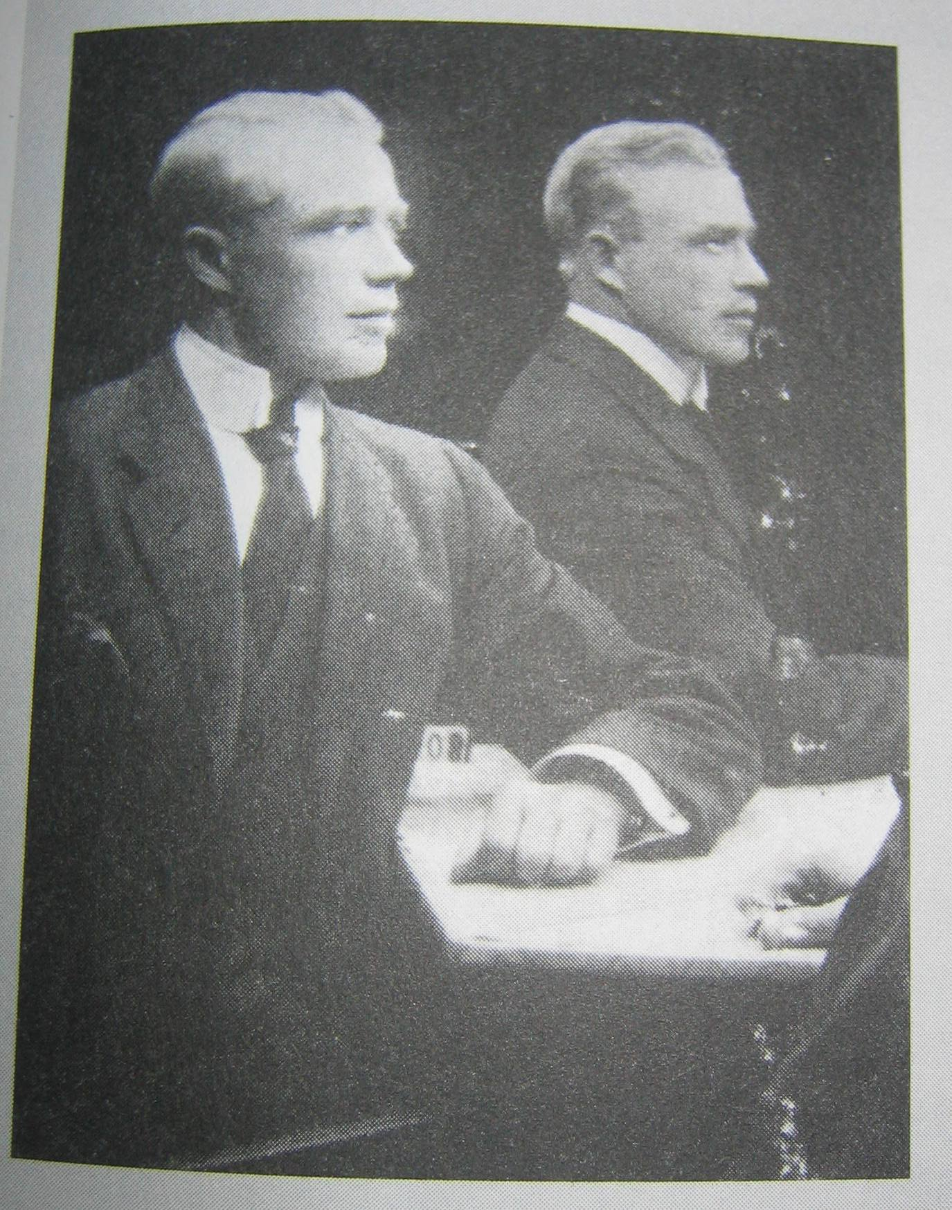 Finnish red guard leader Oskar Sundman